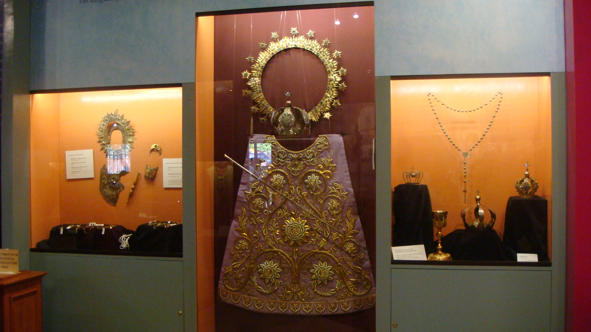 Regalia for a late 500 Queen: breastplate, crescent-moon ornaments, cape, crowns, scepter, etc., Our Lady of the Rosary of Manaoag, (Museum)